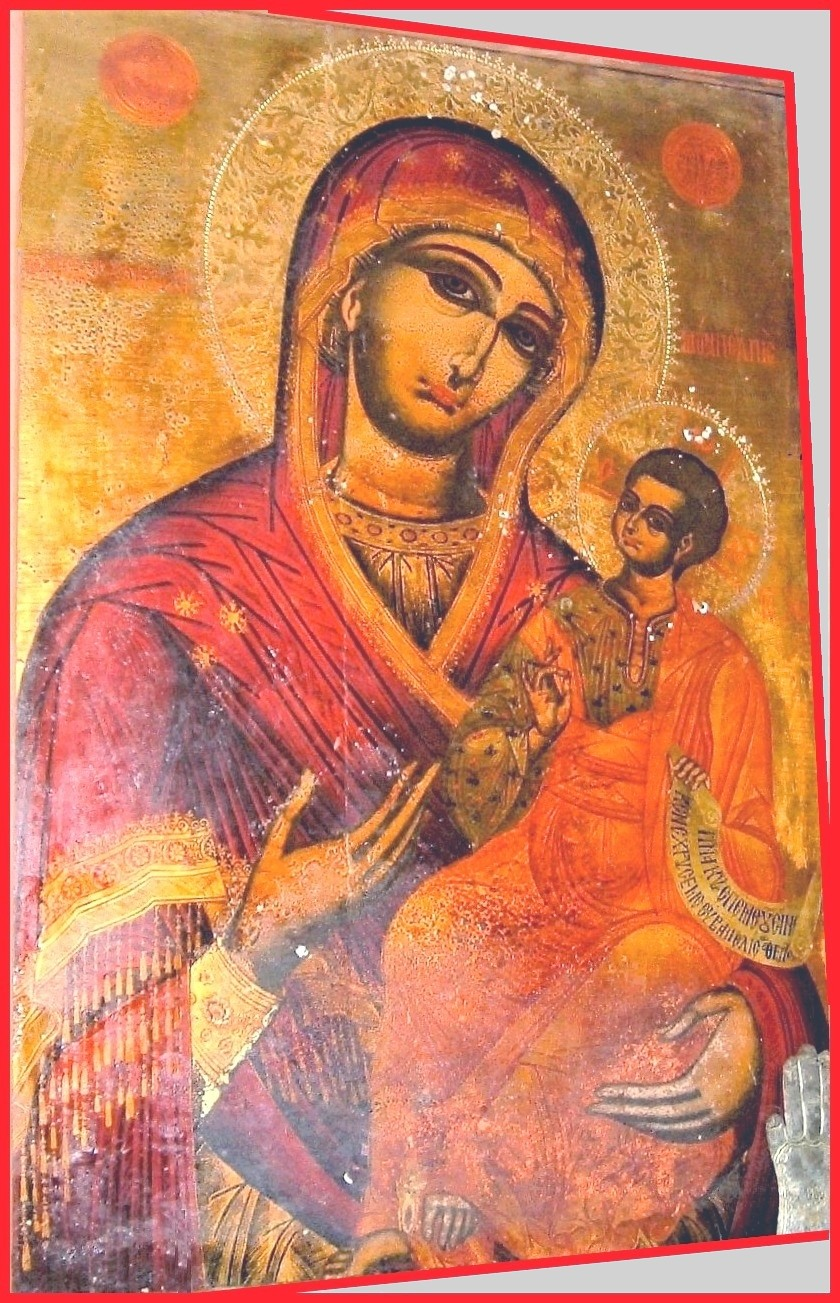 Saint Mary Odigitria Icon in Saints_Cosmas_and_Damian_of_Karivis Church